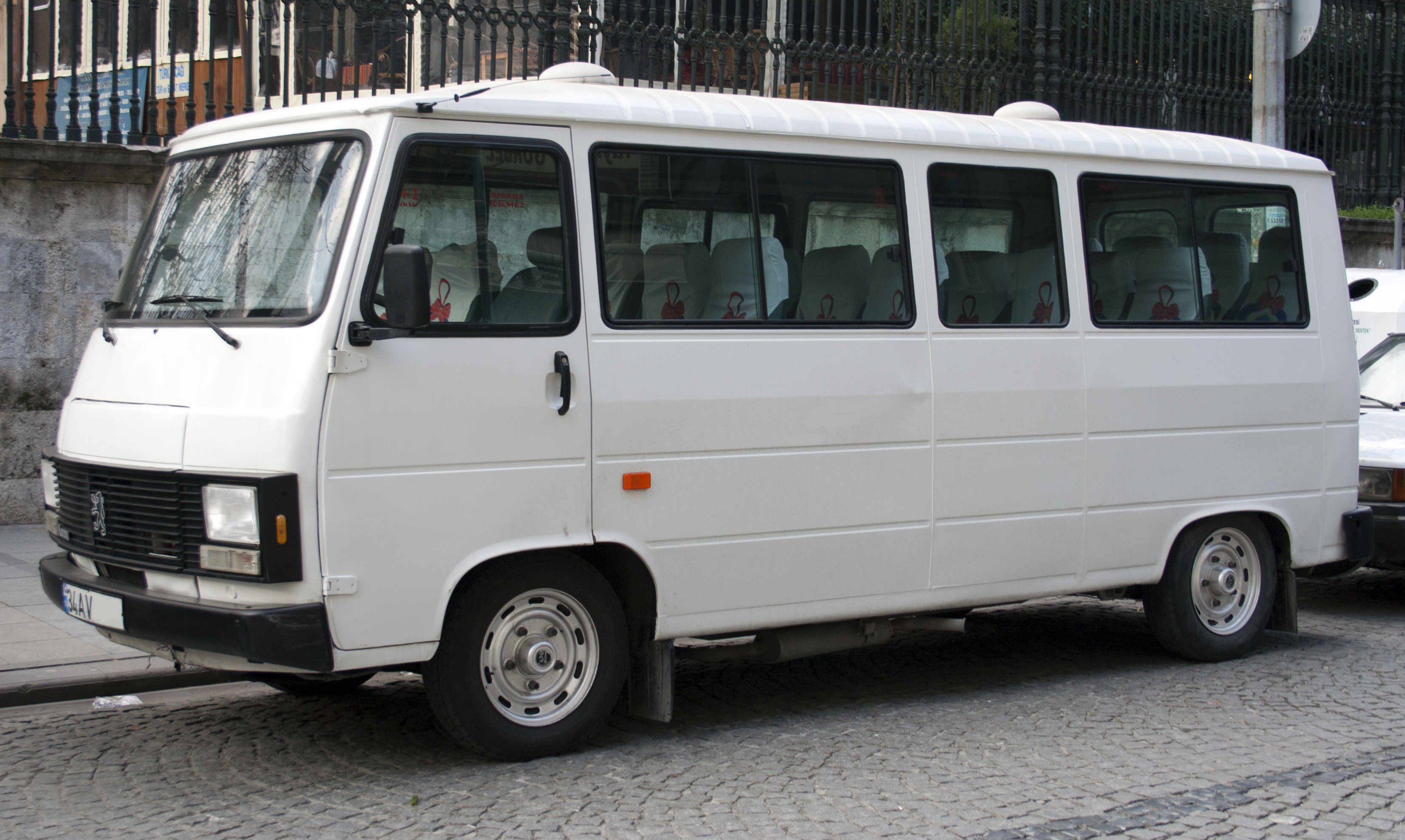 Karsan-built Peugeot J9, facelift version which was built from 1991 until 2006.